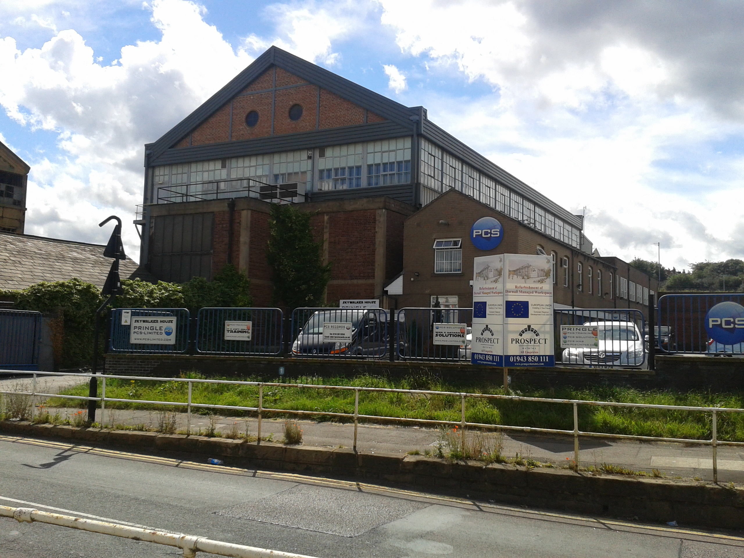 Heat Treatment Workshop on north side of Sandersons Kaysers Darnall Works